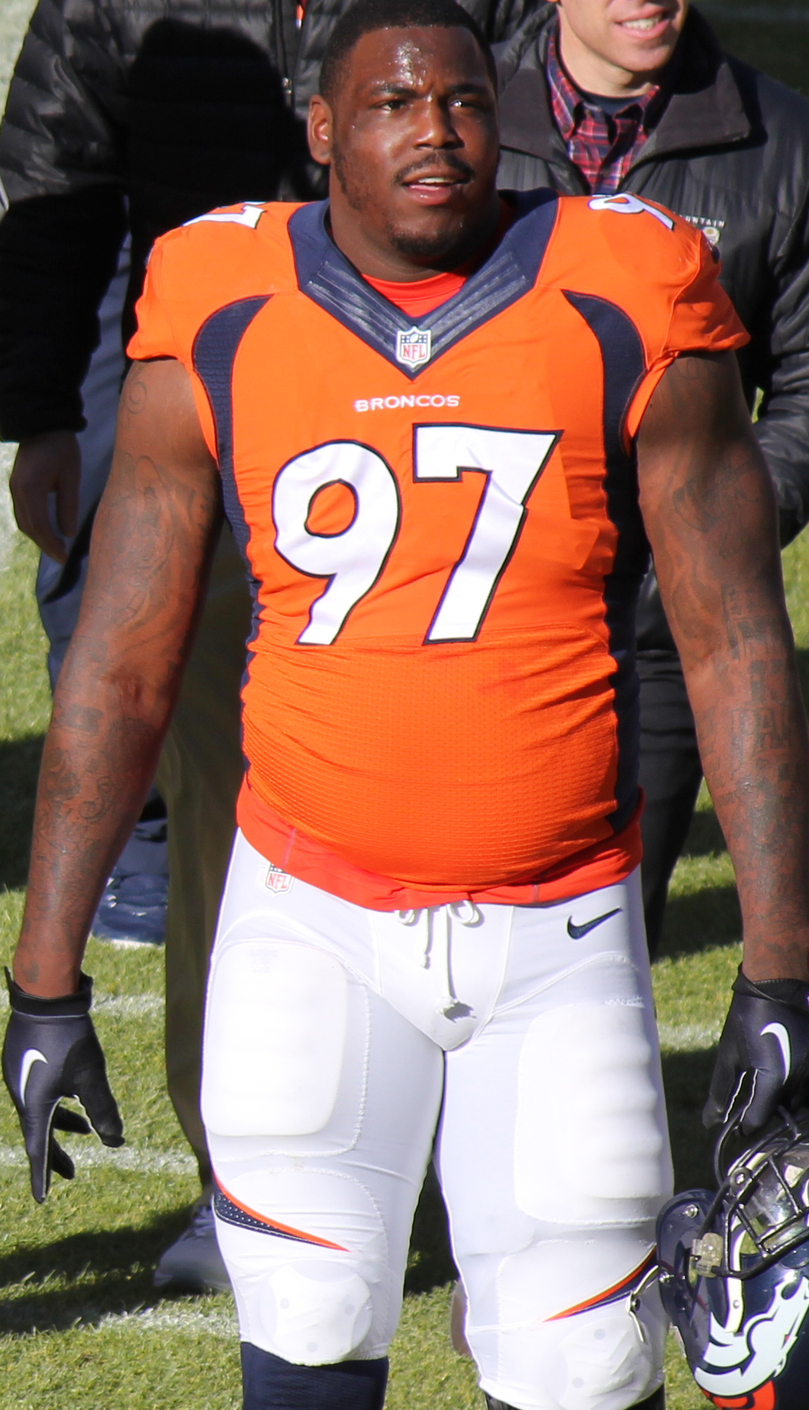 Malik Jackson, a player on the National Football League.